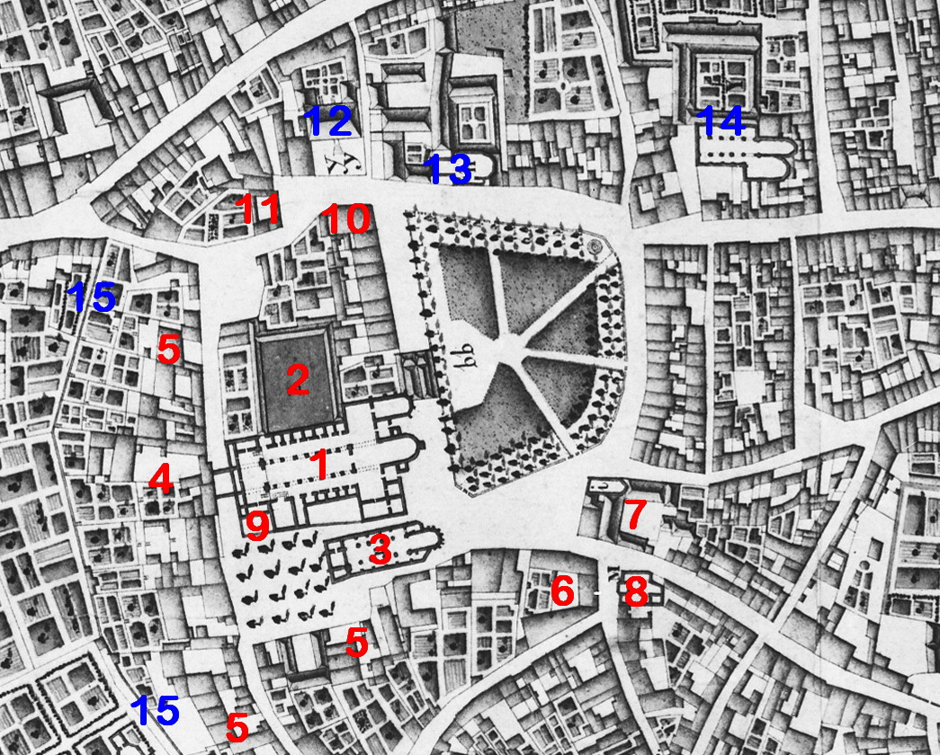 Locations of the main buildings belonging to the chapter of Saint Servatius (in red) and other buildings around Vrijthof, Maastricht, the Netherlands. Based on a 1749 map by French military engineer Jean-Baptiste Larcher d'Aubencourt, also used to build the Maquette of Maastricht.